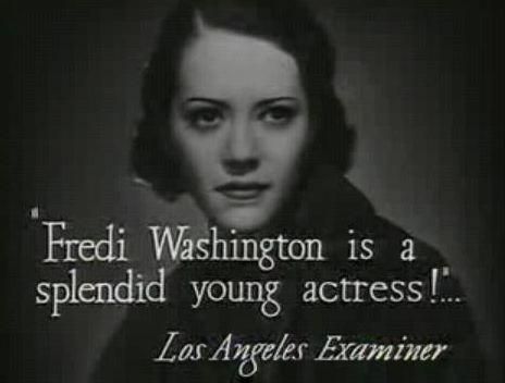 Screenshot of Fredi Washington from the film Imitation of Life (1934)